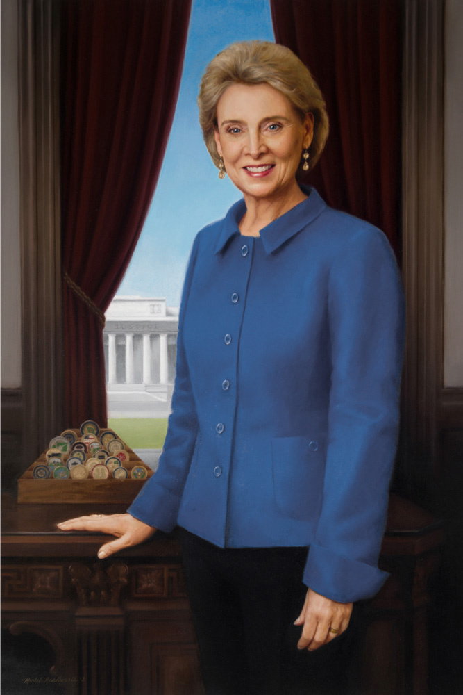 Governor Christine Gregoire portrait painting by Michele Rushworth, oil on canvas, 30x43", state capitol, Olympia WA